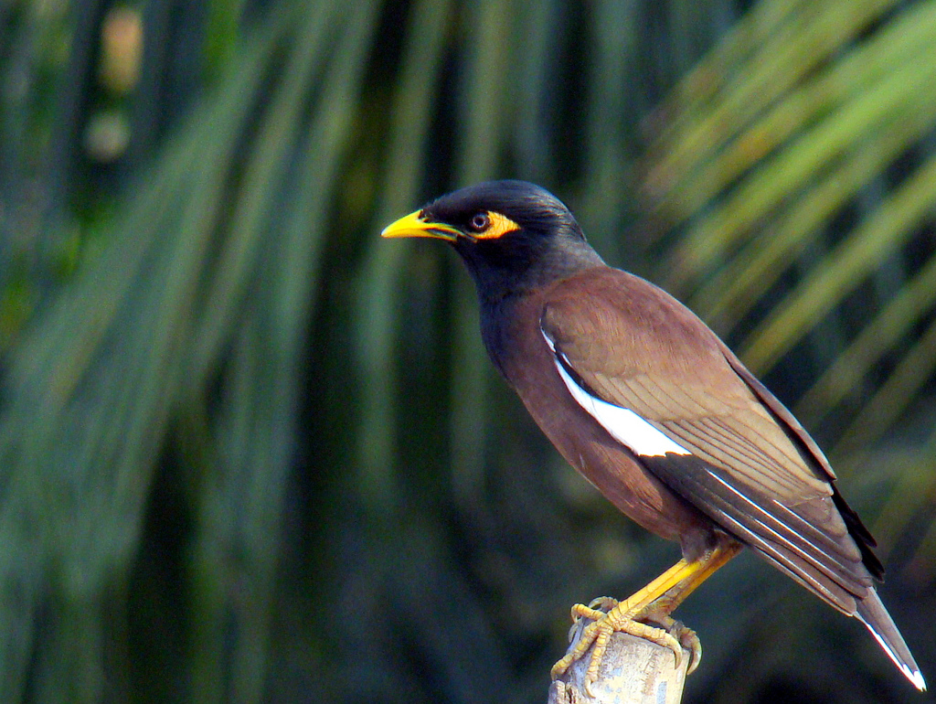 Common Myna